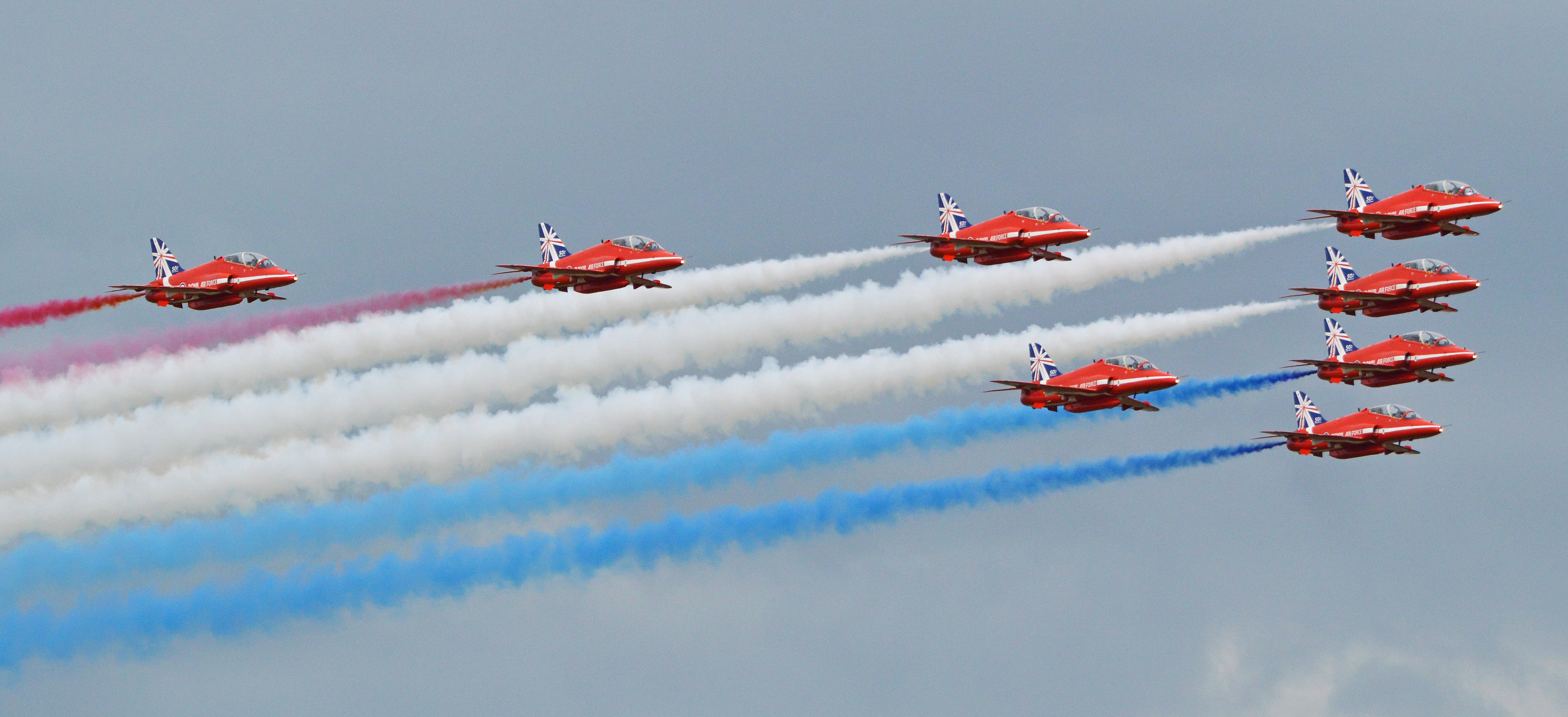 The Royal Air Force Aerobatic Team, The Red Arrows, seen running in to break for landing after their usual polished display. The team's Hawk aircraft wear a modified colour scheme for 2014, to marks their 50th year. Eight of the teams aircraft are seen here, the ninth having landed slightly earlier after suffering a bird strike. 2014 Waddington Airshow. RAF Waddington, Lincolnshire, UK. 05-7-2014